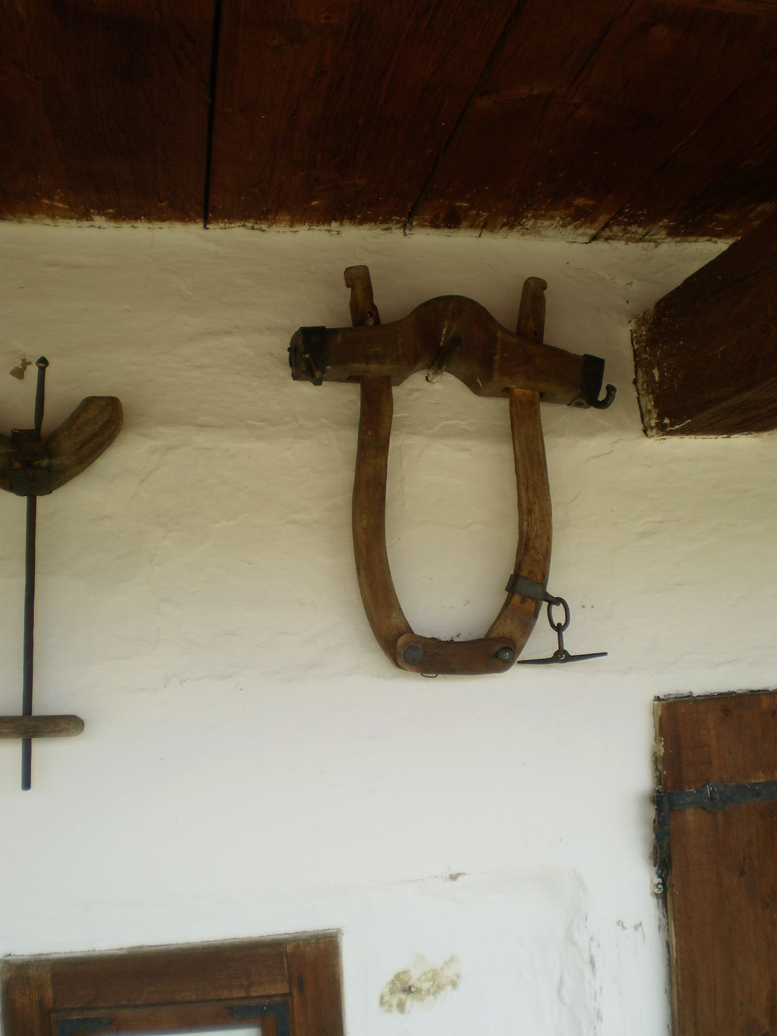 Yoke